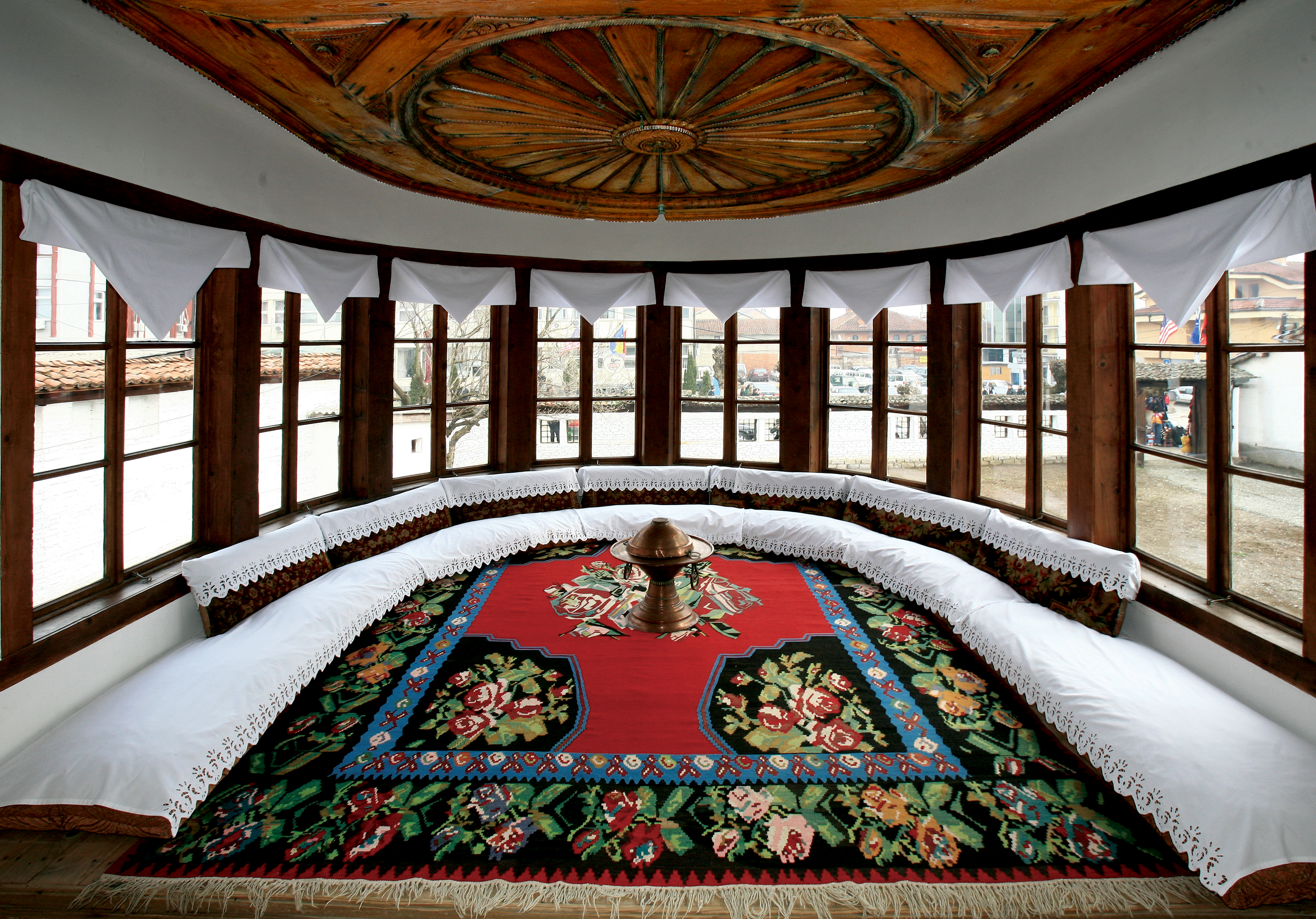 Ethnological Museum in GjakovaShqip: Muzeu Etnografik